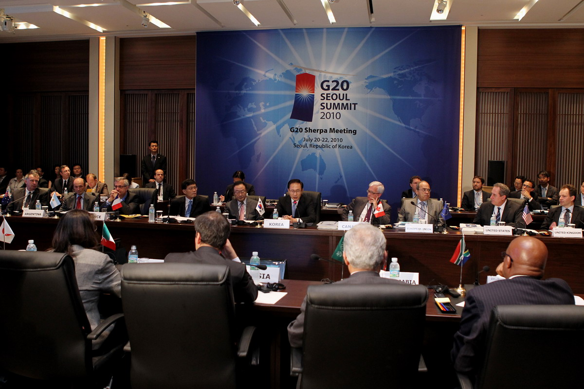 The sherpa meeting held in preparation for the G-20 Financial Summit scheduled for November this year in Seoul.